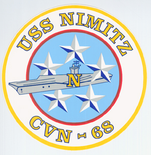 Seal of USS Nimitz (CVN-68).